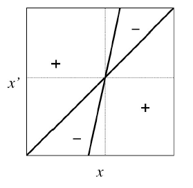 PIP Branchement Evolutif